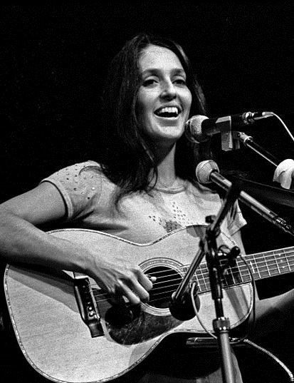 Joan Baez in Hamburg 1973 by Heinrich Klaffs.